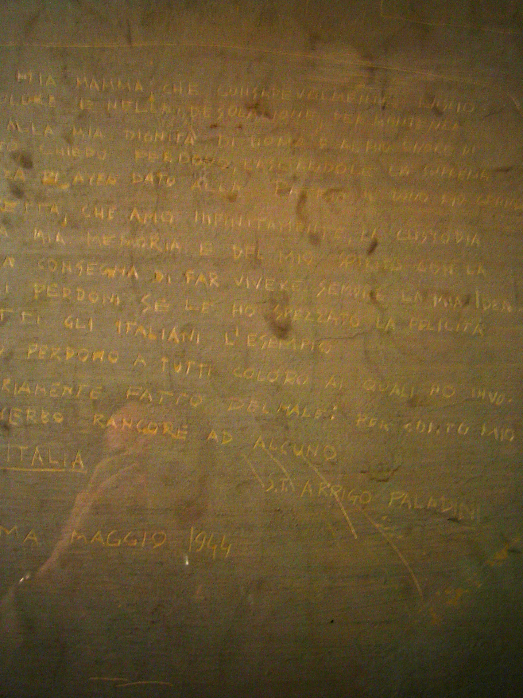 Sottotenente Arrigo Paladini scratched a long, sad letter to his mother on the wall of his cell.